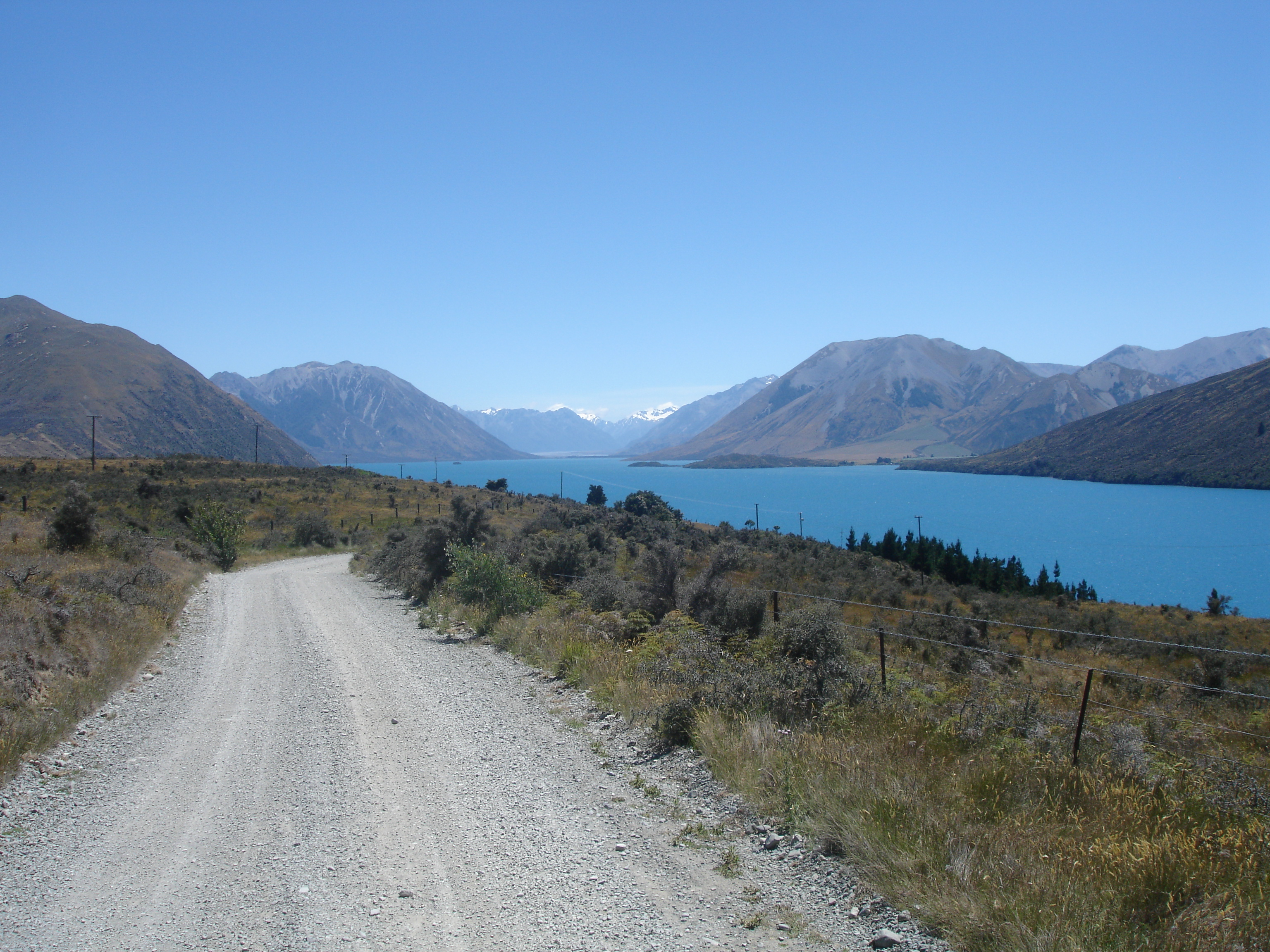 Nearby is the Lake Coleridge Hydroelectric Power Station (opened in 1914) which was "the state?s first major involvement in electric power supply". The station has plaques dedicated to Faraday and Hans Christian %c3˜rsted|Ørsted .